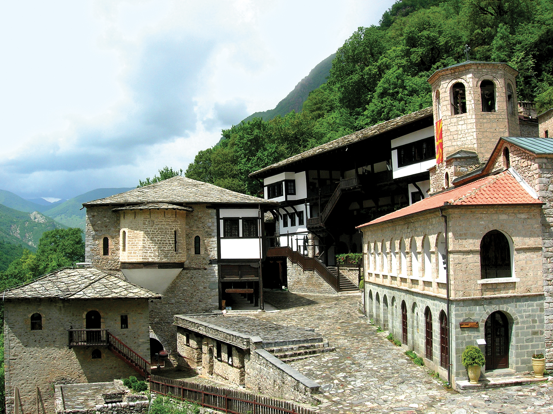 Monastery "Sveti Jovan Bigorski", Macedonia.